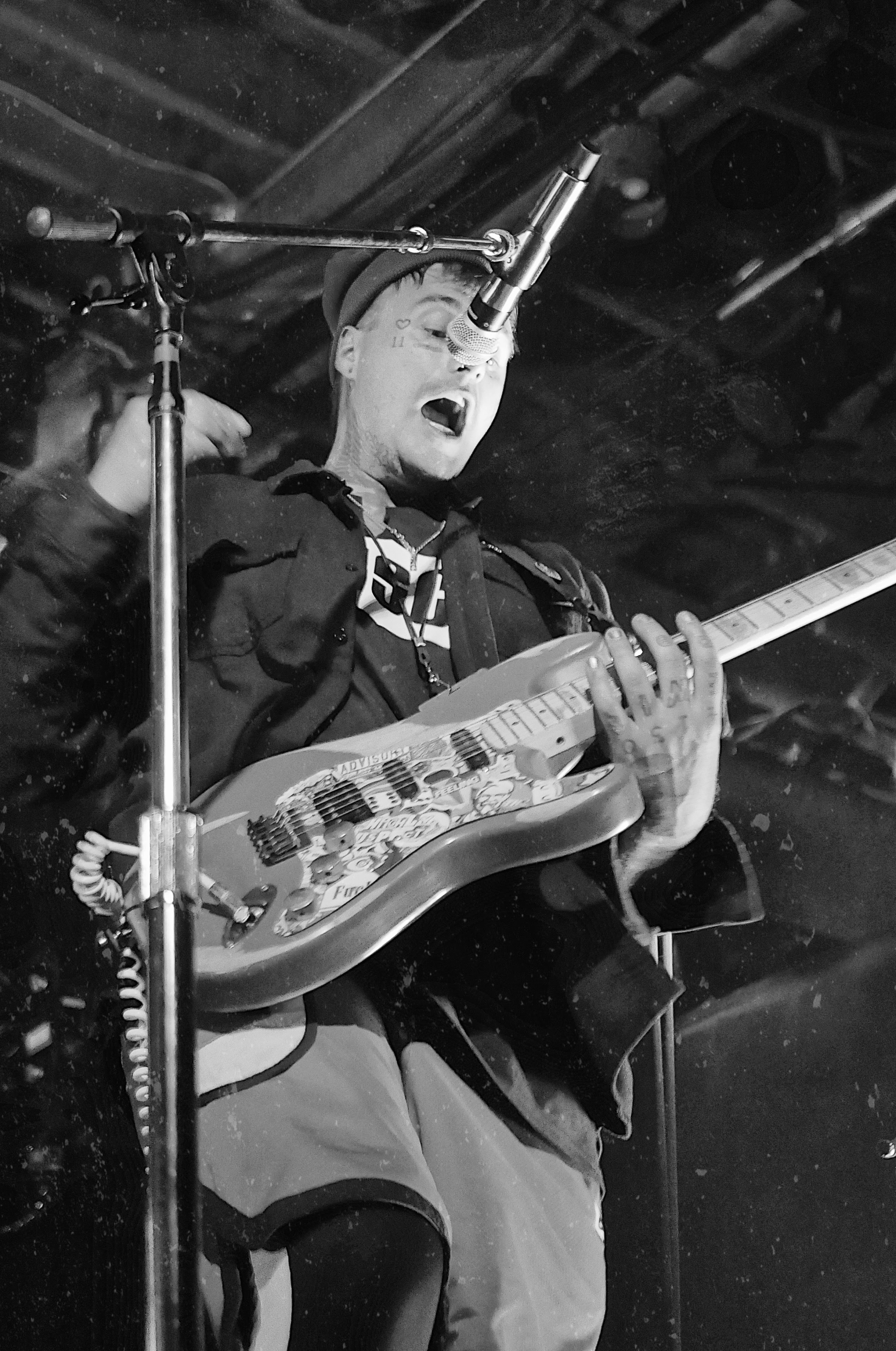 Photograph by Josh Jaffe (@josh_jaffe)